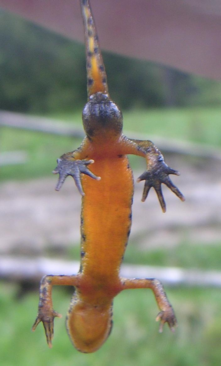 Lissotriton montandoni